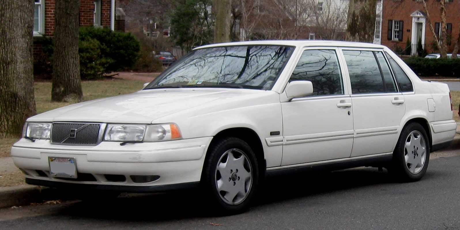 Volvo S90 photographed in Alexandria, Virginia, USA.